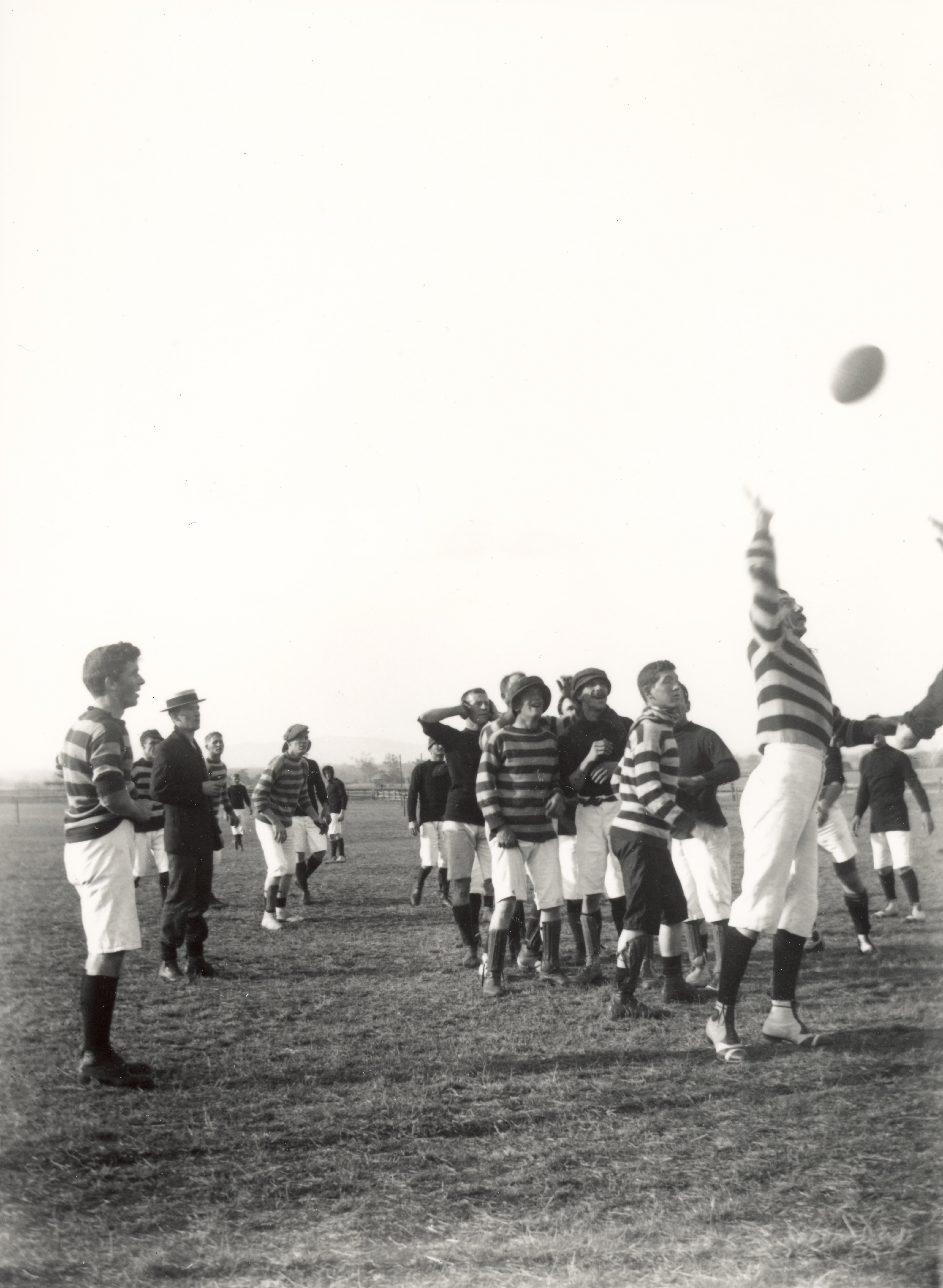 The origins of Rugby Union in Queensland. Rugby was still a new sport in Queensland in the 1890s. The game only became popular in the late 1880s, but was the dominant code in Queensland until the advent of Rugby League in 1908. Recreational pursuits like football were limited to Saturday afternoon. Sunday was for church and ‘rest’. Sports only became popular as the working week was shortened from six days to five and a half in the late 1900s. Queensland Museum holds over 1000 of Bert Roberts' plate glass negatives and prints from the era.